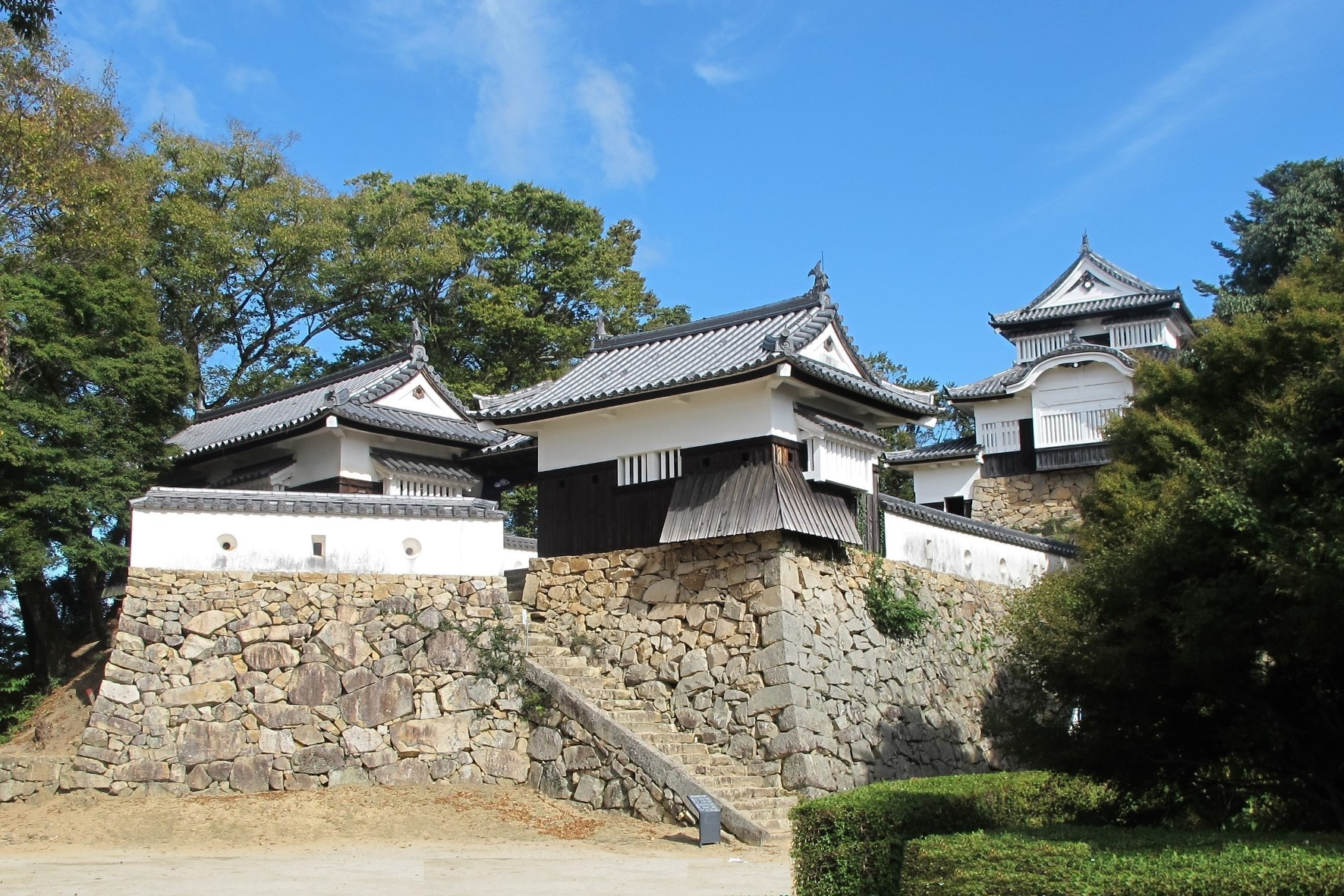 Bitchu Matsuyama castle